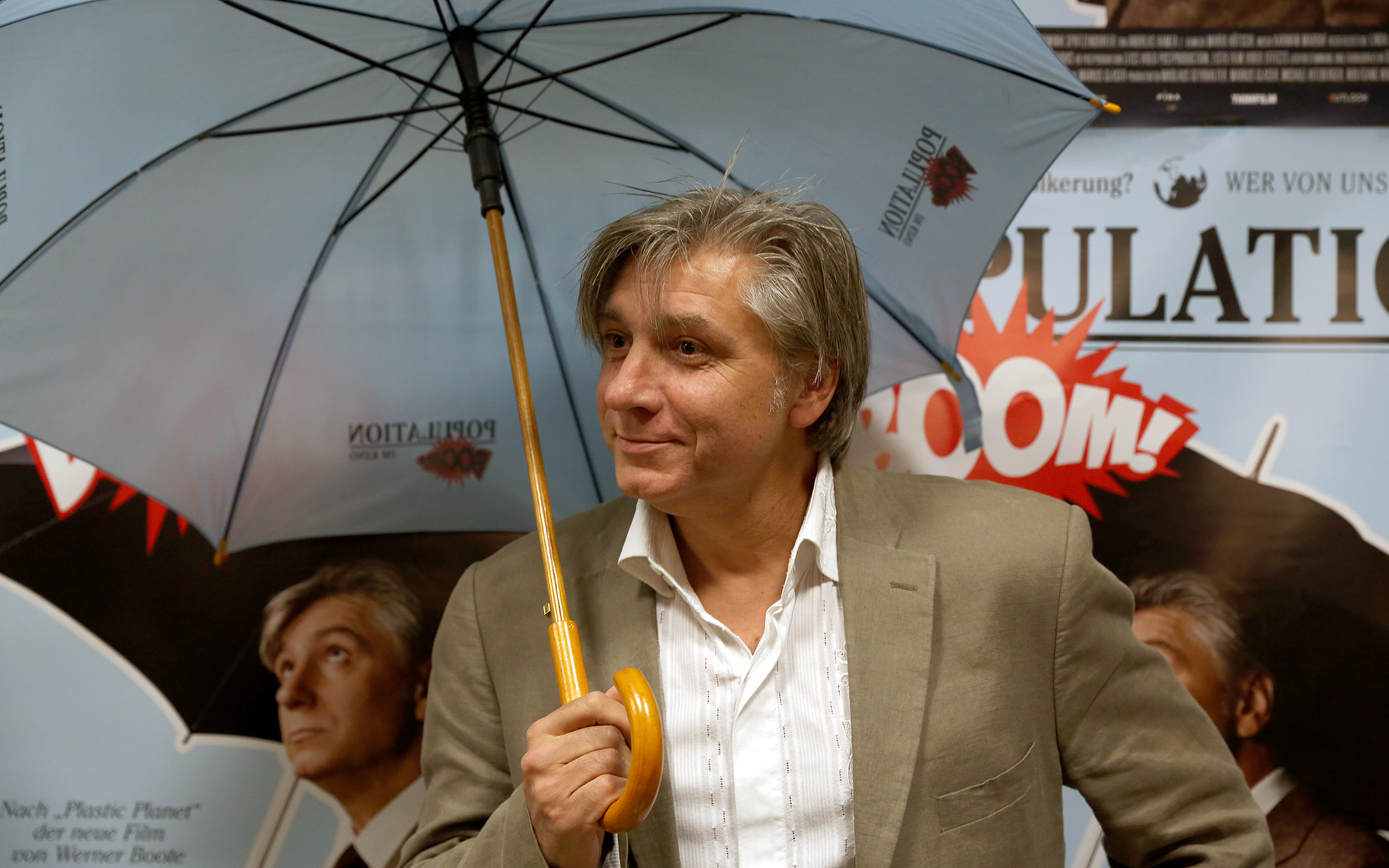 Werner Boote at the premiere of his documentary Population Boom at Gartenbaukino in Vienna.